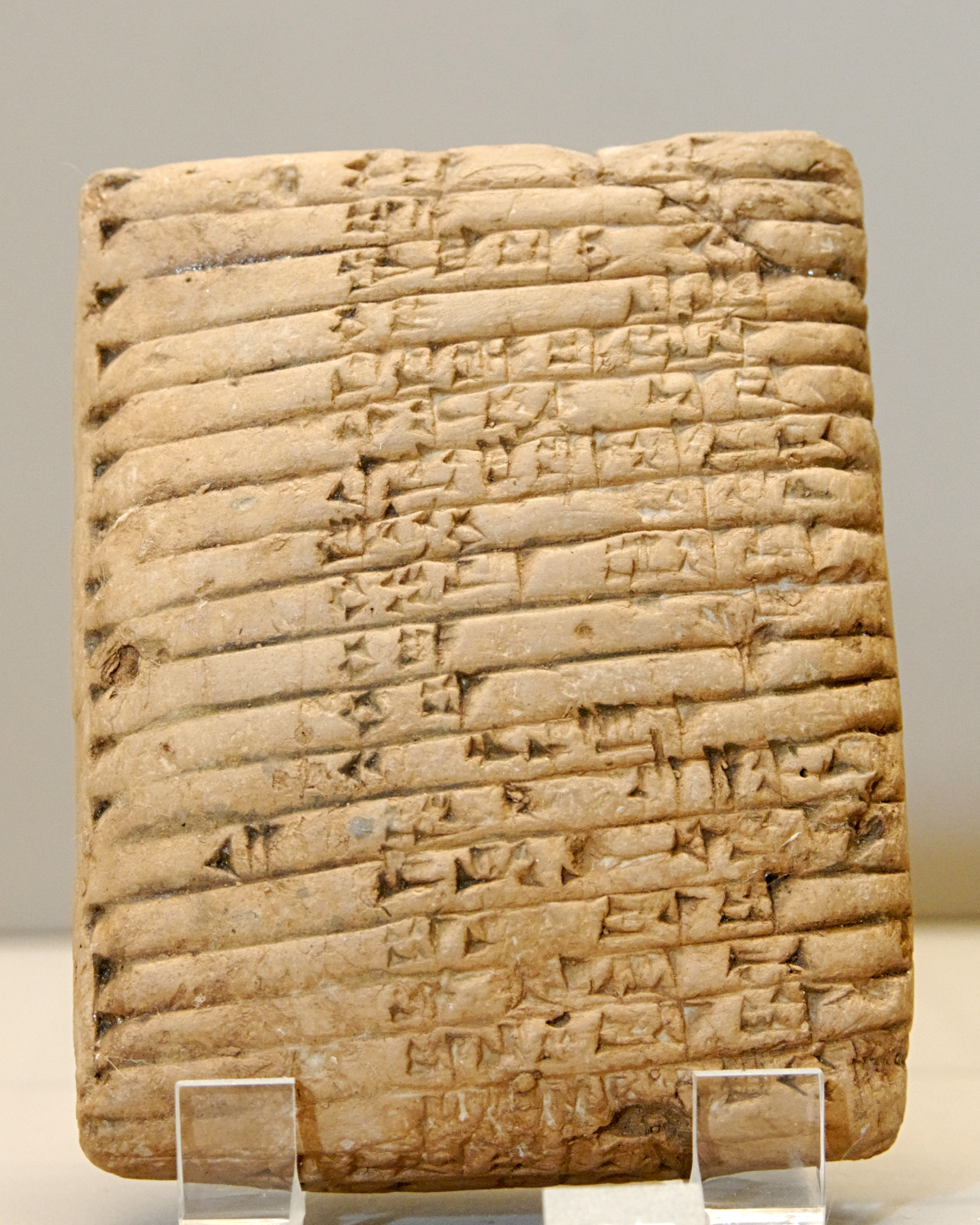 Dynastic list of the kings of Awan and Simashki. Clay, Sukkalmah dynasty, early 2nd millennium BC. From Susa, Iran.